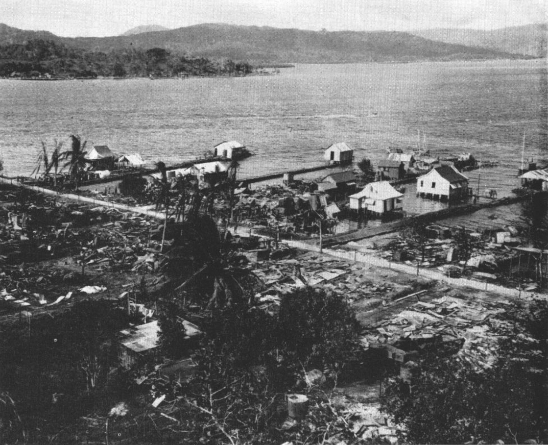 Dock facilities on Tulagi after Allied bombardment, 7 August 1942.